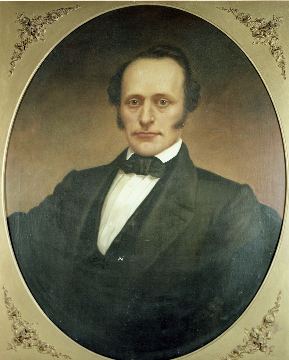 John Willis Ellis, 1859 - 1861 From the General Negative Collection, State Archives of North Carolina, Raleigh, NC.